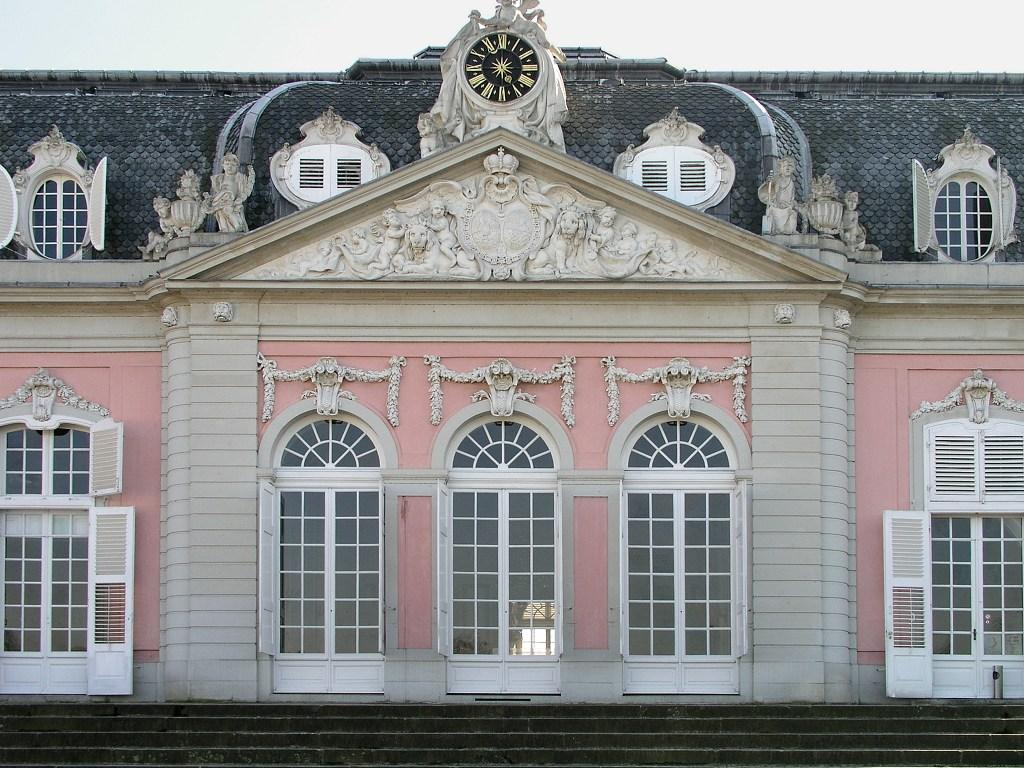 Wuppertal, North-Rhine/Westphalia (Germany): Düsseldorf, castle Benrath, photo 2003